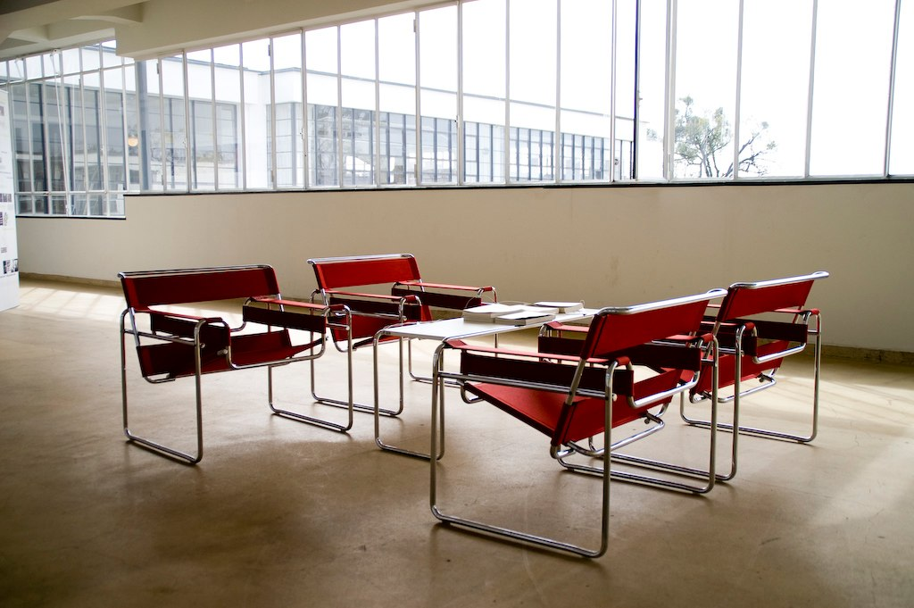 Bauhaus building - Wassily Chairs by Marcel Breuer (1925/26)